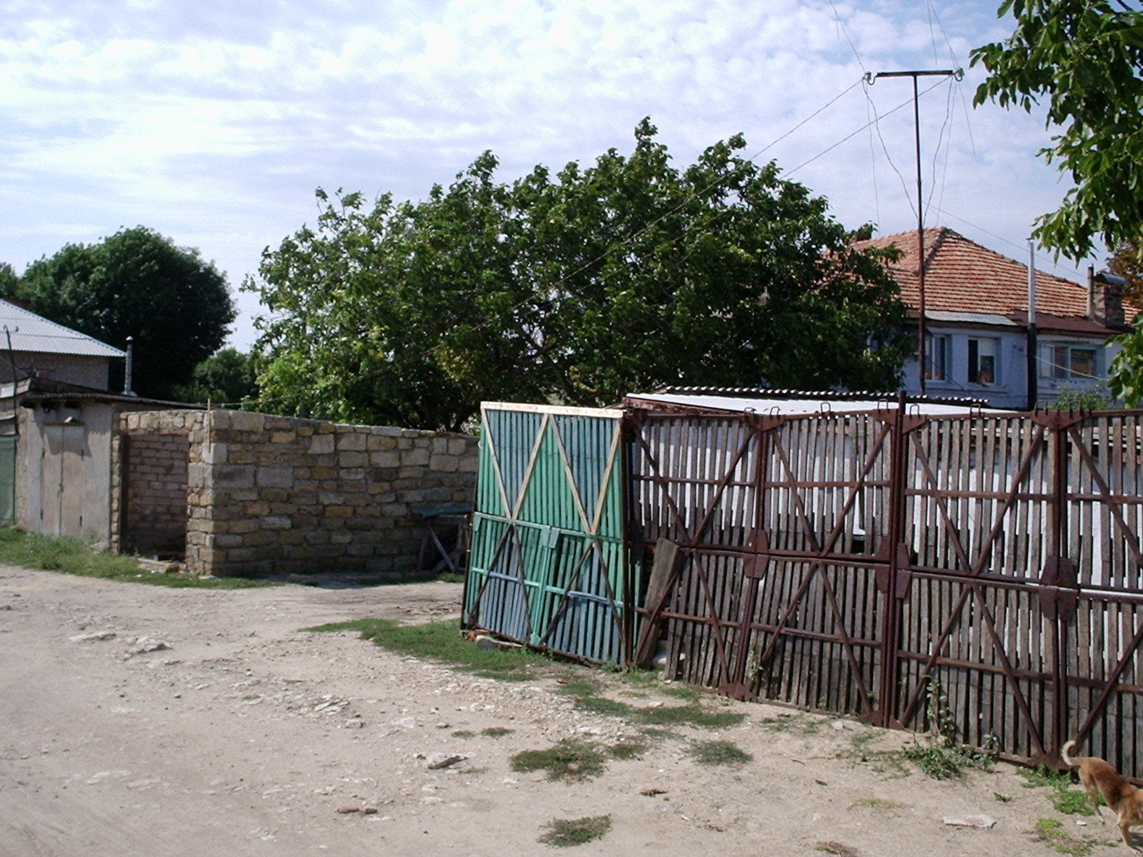 Селище на Аляудах